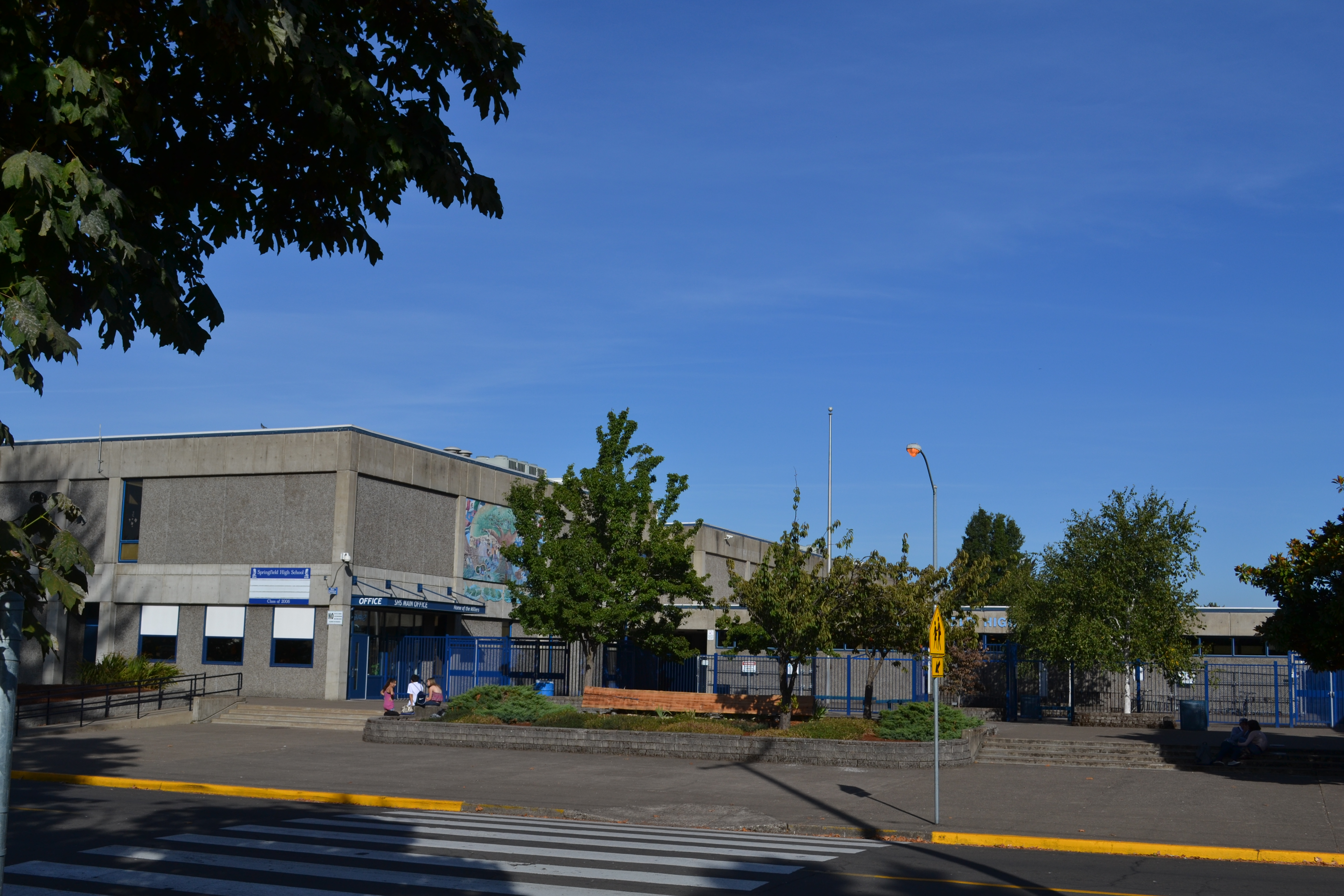 Springfield High School (Springfield, Oregon)